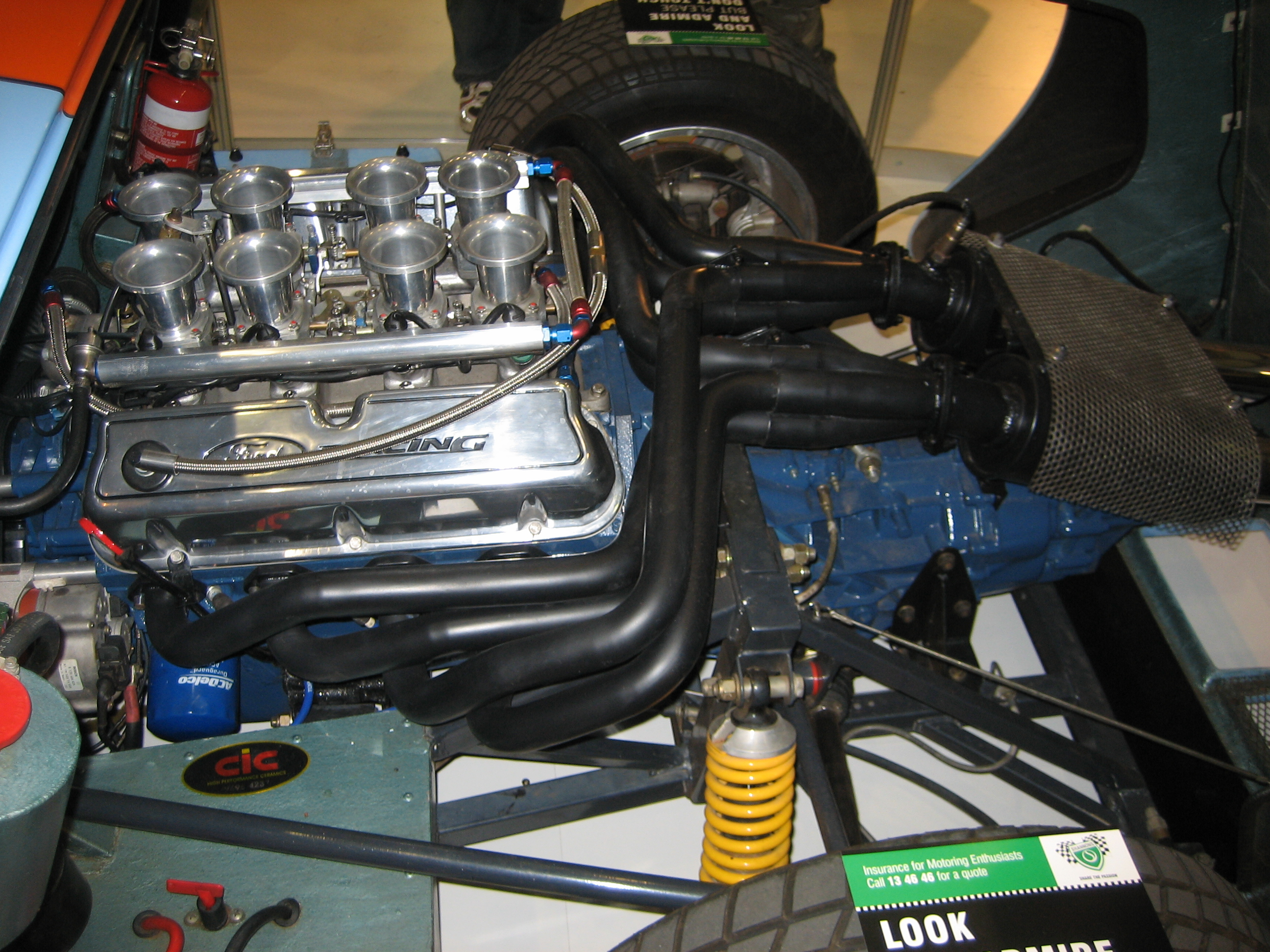 The engine of a Ford GT40 (1960s Le Mans car) Replica on display at the 2008 Perth Motor Show